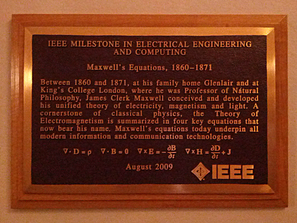 Plaque commemorating Maxwell's equations at King's College London. One of three identical IEEE Milestone Plaques, the others being at Maxwell's Birthplace in Edinburgh and the family home at Glenlair.